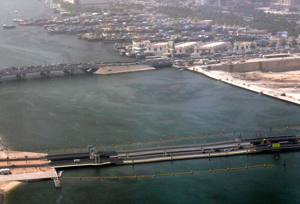 This is an aerial view of Al Maktoum Bridge (top) and Floating Bridge (bottom) over Dubai Creek in Dubai, United Arab Emirates on 8 May 2008. Deira is on the right and Bur Dubai is on the left. Port Saeed can be seen at the top of the image. This image was taken from a helicopter ride courtesy of Nakheel.